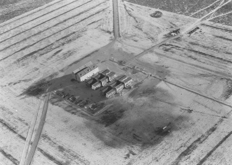 Aerial View of the Japanese and German Village at Dugway prooving ground, Utah. The Villages were created to perfect firebombing techniques on German and Japanese residential areas.